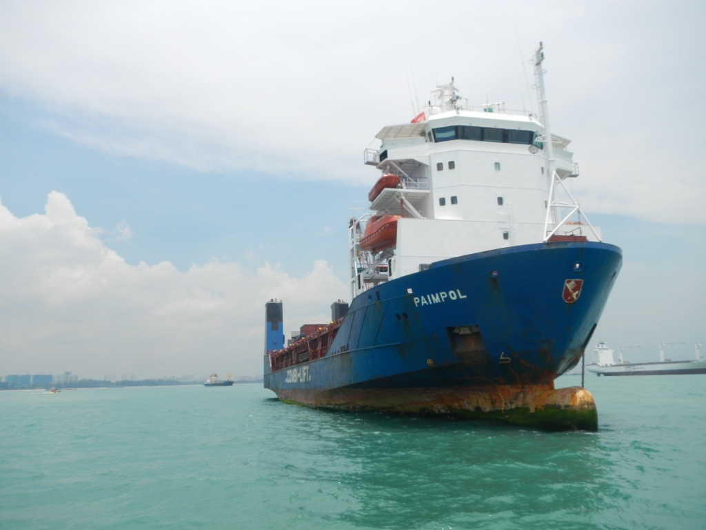 MV Paimpol (IMO 9144457) at outer roads at Singapore. March 2012.